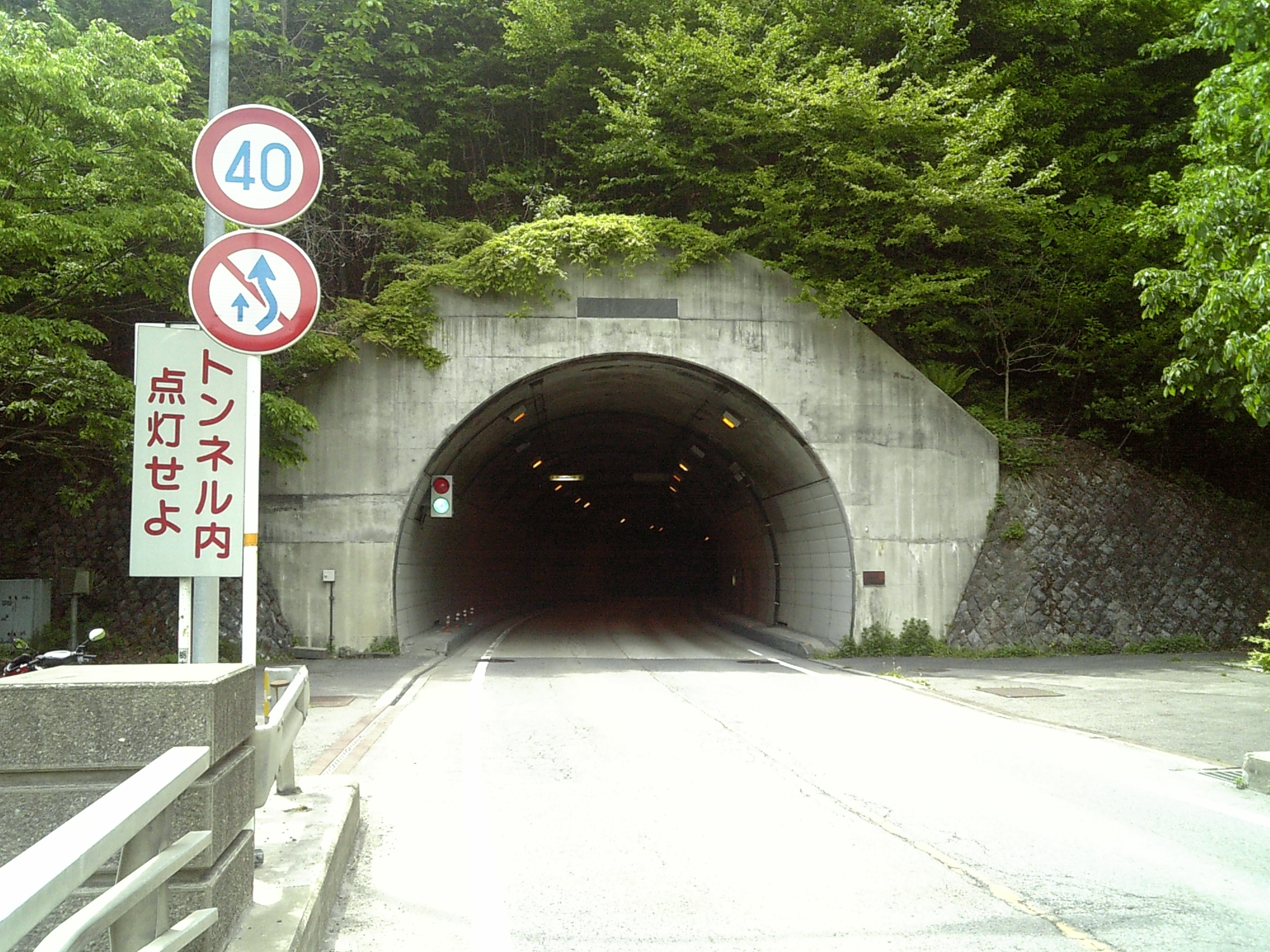 National Route 400 Ogashira tunnel, which connects Nasushiobara and Nikko.